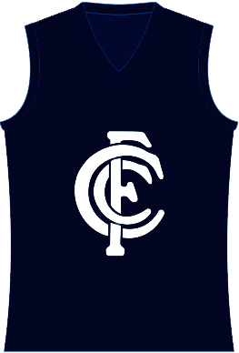 Guernsey of Carlton Football Club